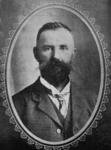 Photo of Richard Tills 1907